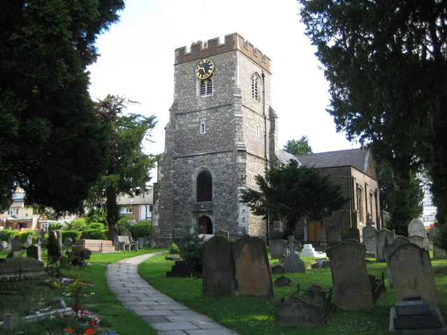 St Margaret of Antioch parish church, Edgware, Middlesex, seen from the southwest